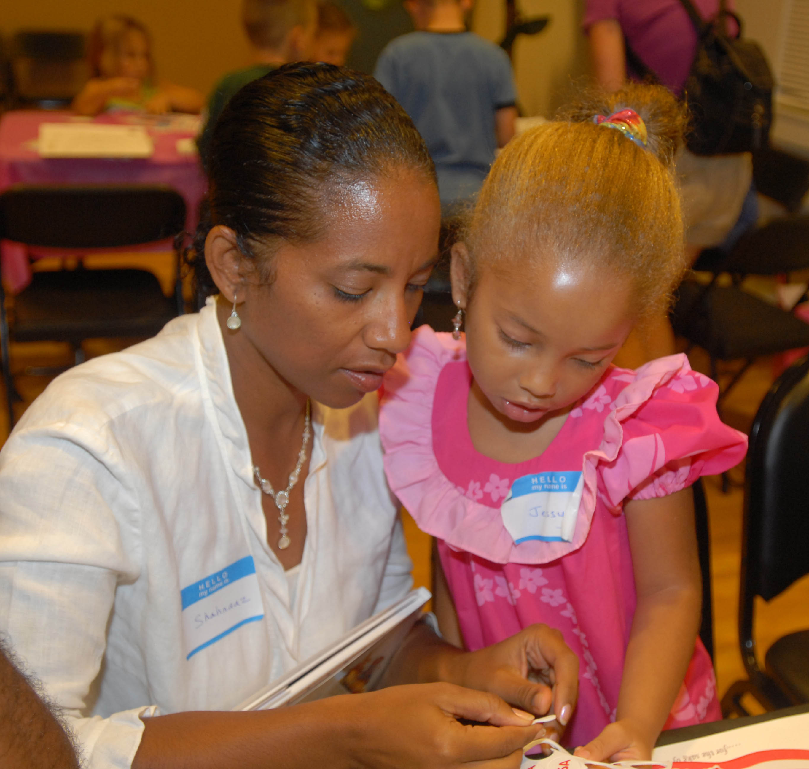 Shahnaaz Mason and her daughter Jessy, 4, work together on a craft project at the "Tell Me a Story" event, Sept. 16.